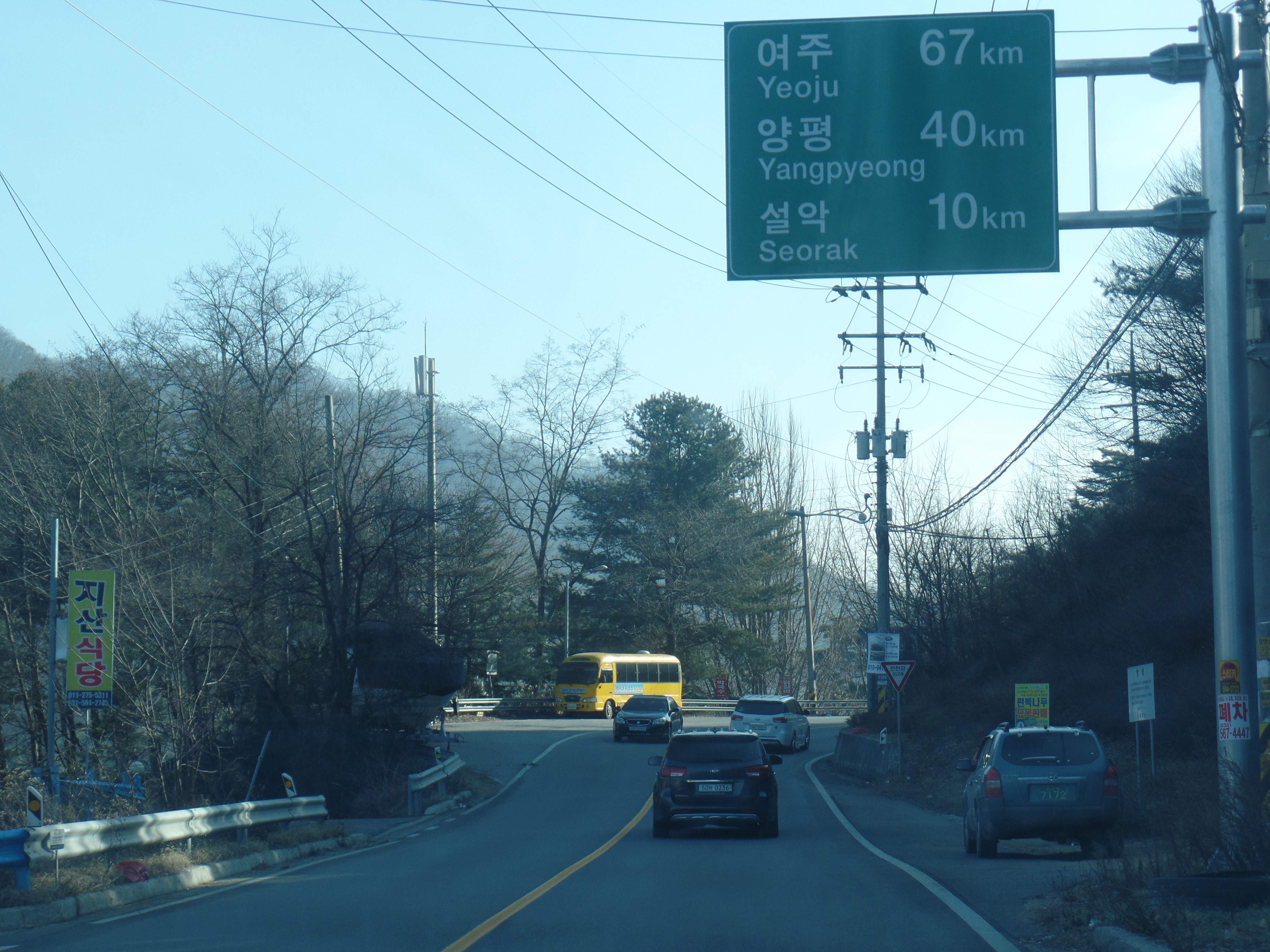 Republic of Korea National Route 37 Sincheongpyeongdaegyo Bridge-Sincheon Intersection(Southward Direction)